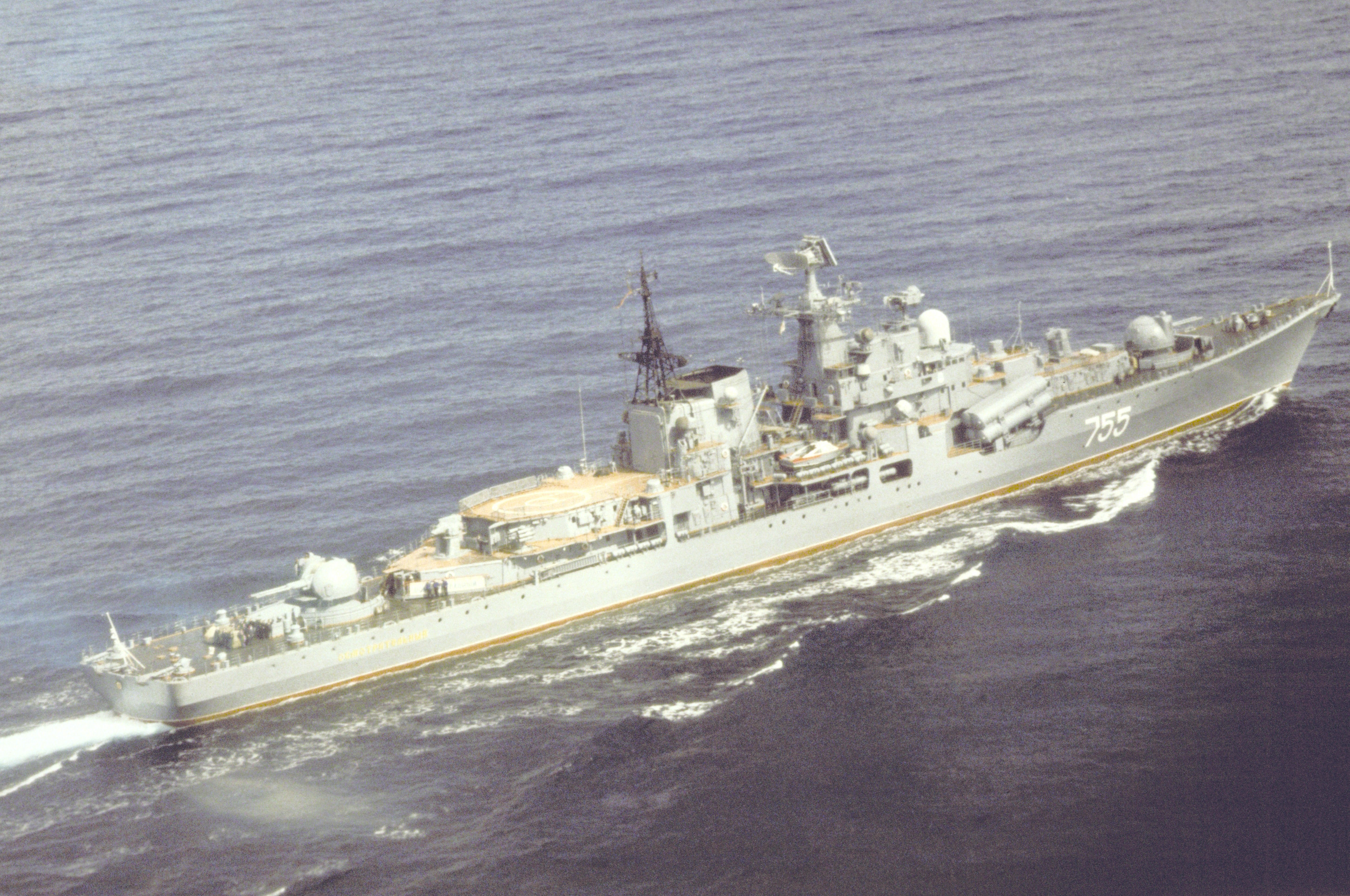 A starboard quarter view of the Soviet Project 956 "Sarych"(Sovremennyy class) destroyer Osmotritelny underway.